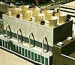 This photo was obtained from a website at and permission was granted by SPX Cooling Technologies (the website owners) to use the photo under GFDL license in an email dated April 24, 2006. The permission has been documented this at Wikipedia:Successful requests for permission.